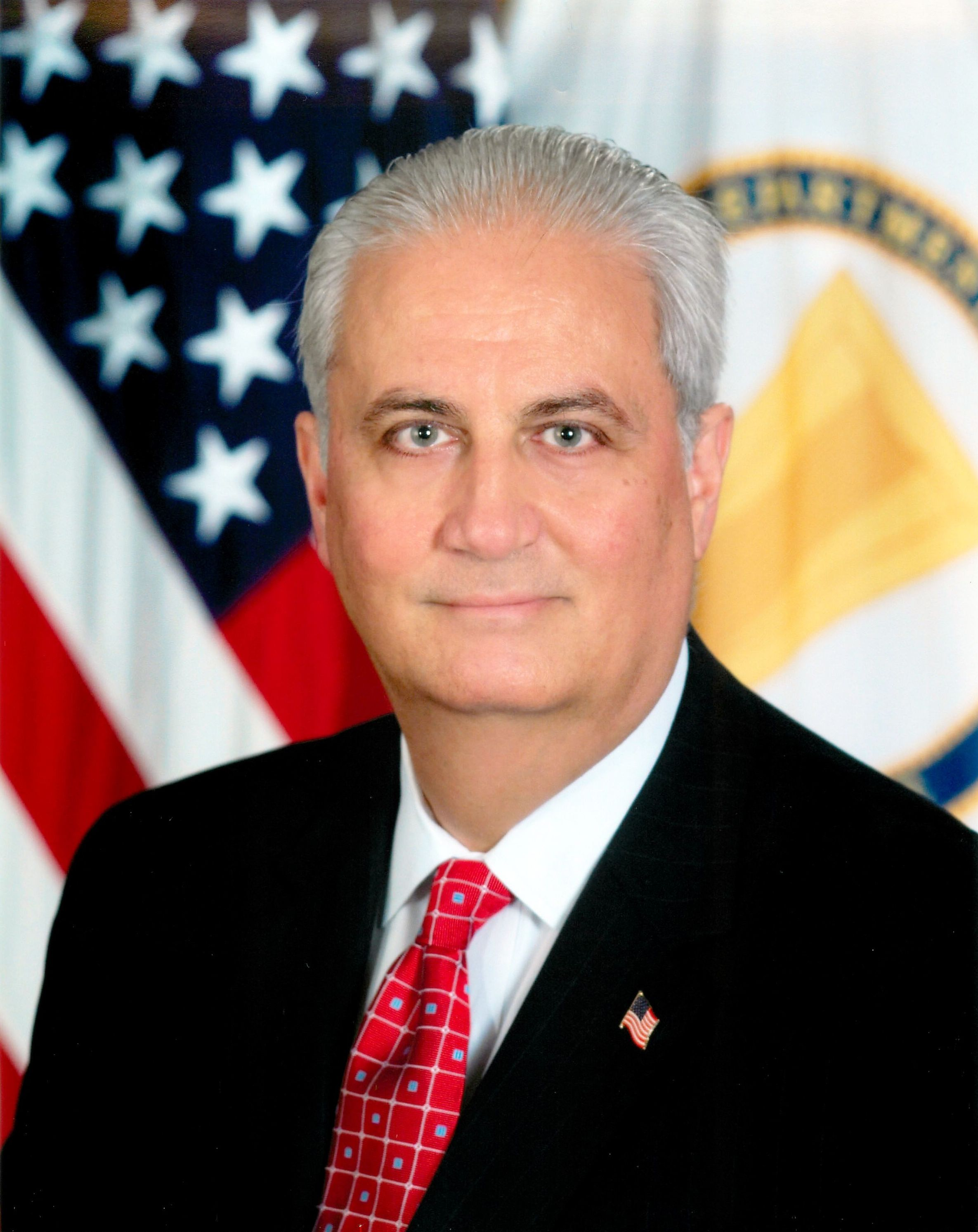 Official photo of Dean G. Popps